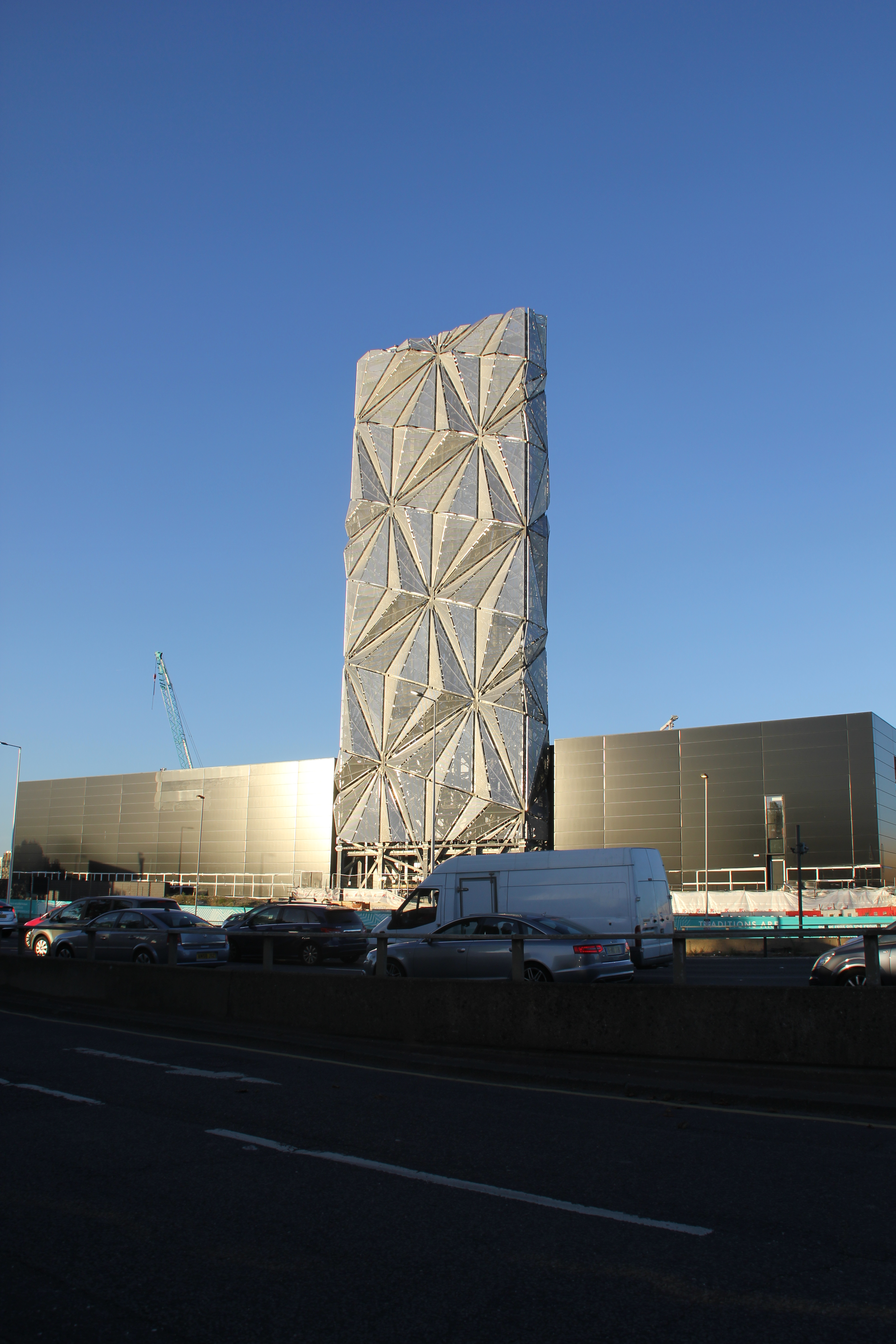 Greenwich combined heat and power (CHP) energy centre - the tower's, cladding is a work entitled 'Lenticular Dazzle Camouflage', designed by British artist Conrad Shawcross.